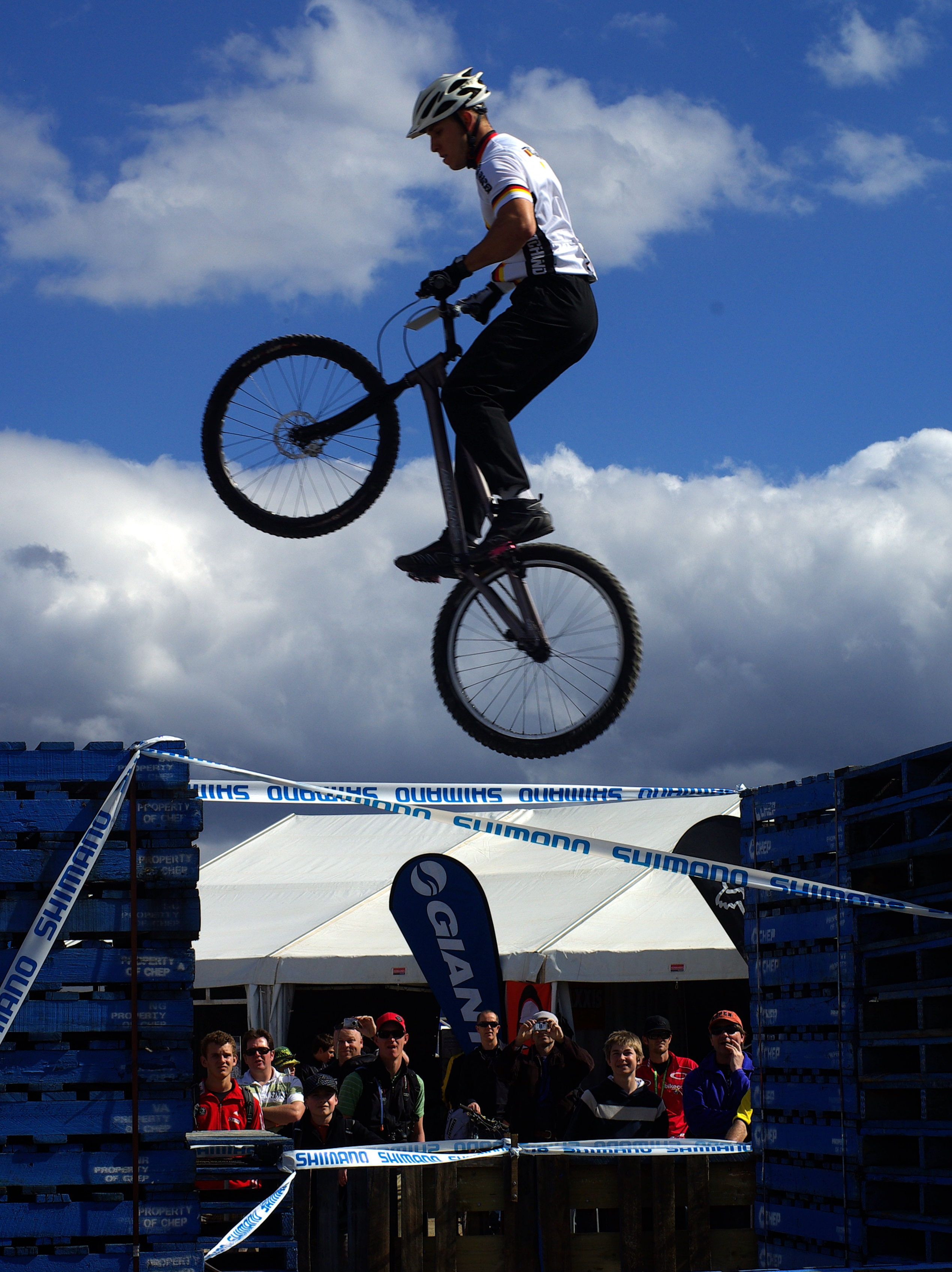 Competitor in the observed trials events at the 2009 UCI Mountain Bike & Trials World Championships held in Canberra, Australia.